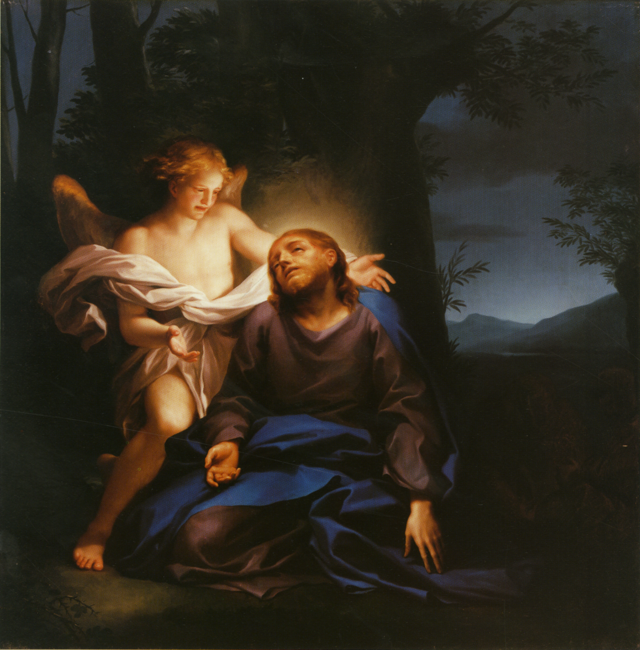 Christ in the Garden of Gethsemane by Anton Raphael Mengs, originally one of four in a cycle on the Passion of Christ as supraportas for the bedroom of King Carlos III, now in the Palacio Real, Madrid. Oil on canvas, 185 x 185 cm.